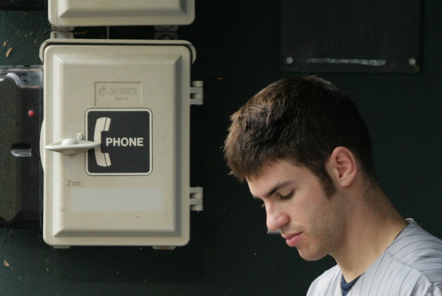 baseball player as shot by photographer Keith Allison